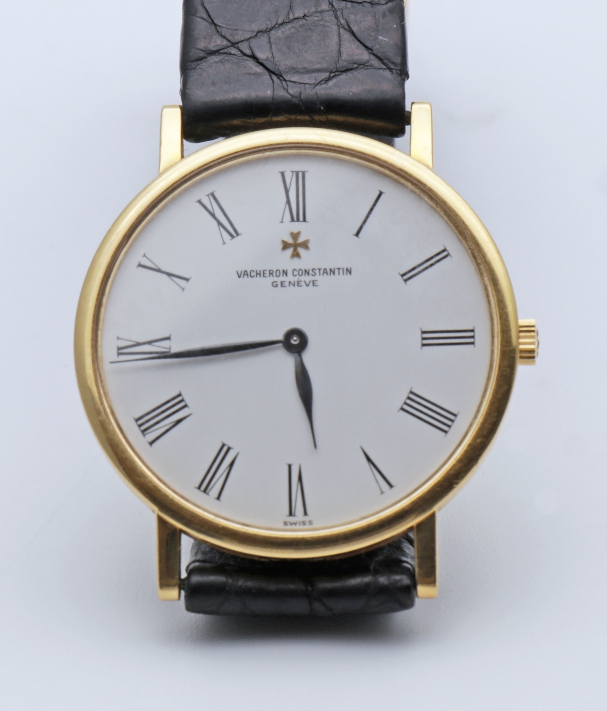 Vacheron Constantin, Patrimony, ref. 33091-1, 18 carat gold wristwatch, manual wind, circa 1990. The manual wind movement has 18 jewels, and is adjusted to heat-cold isochronism and 5 positions, cal. 1003/2, white dial, Roman numerals, Feuille hands, snap back.